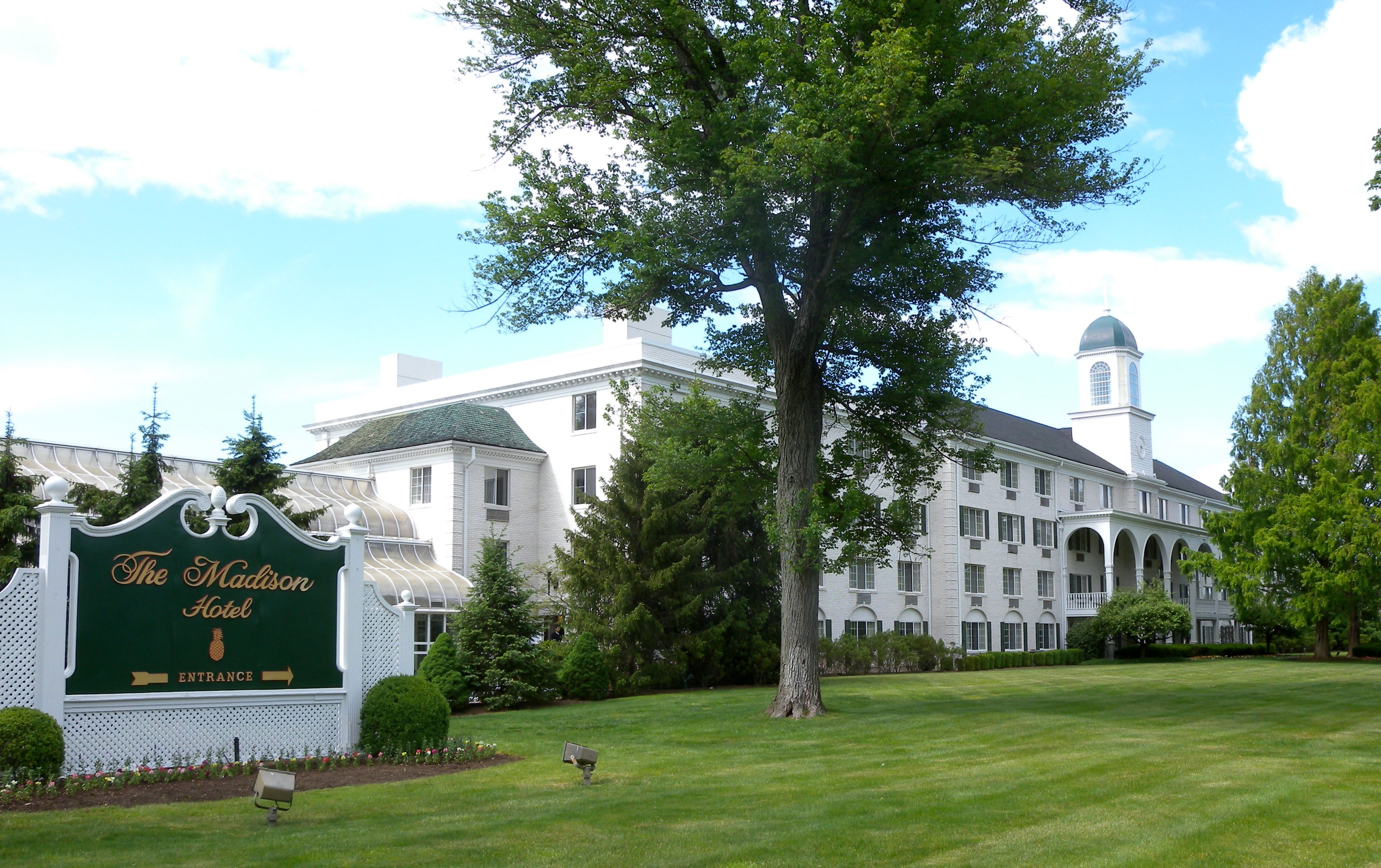 Looking north at Madison Hotel on a partly cloudy afternoon.